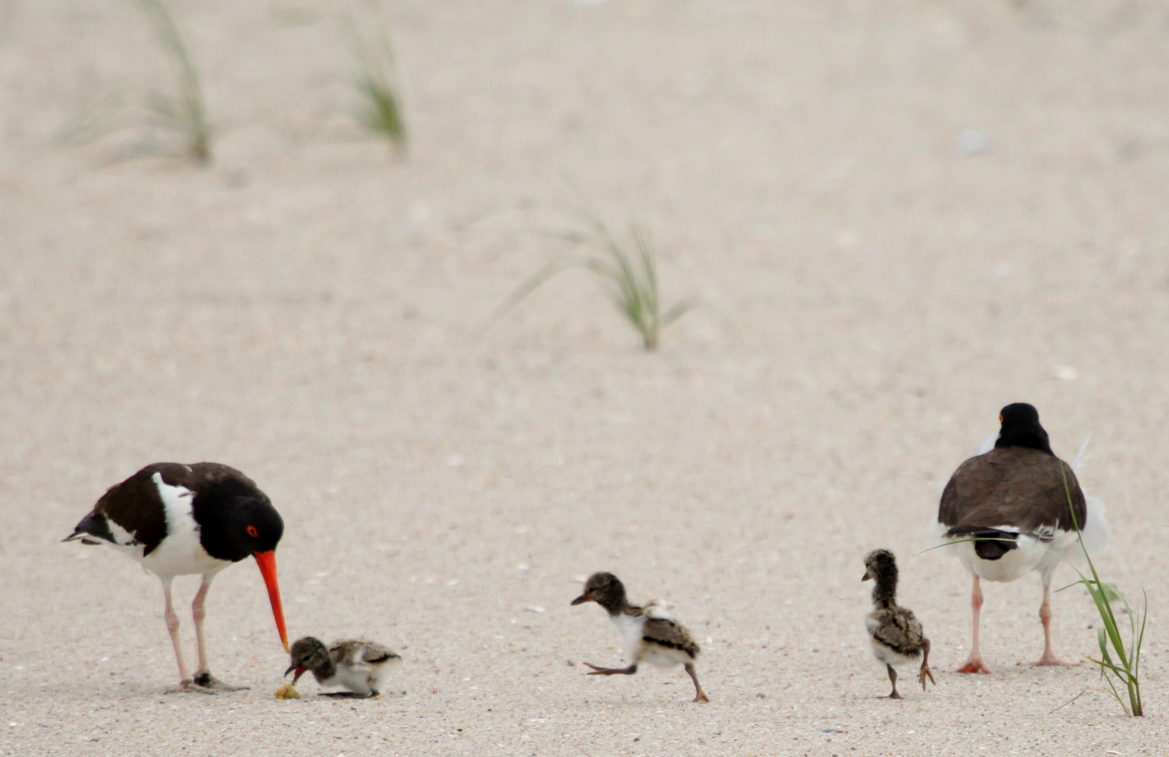 American Aystercatcher parents with chicks on the Atlantic coast, New Jersey, USA.